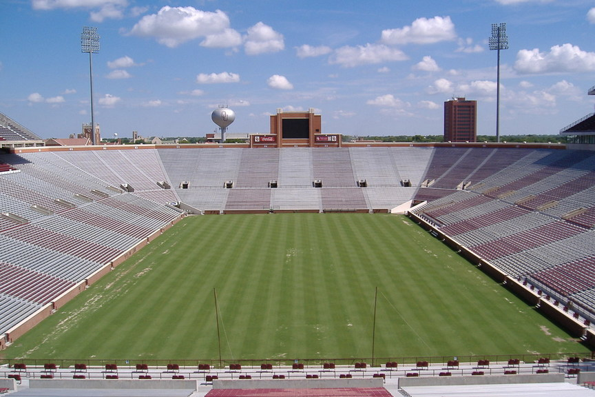 A view from the top row of the inside of Oklahoma Memorial Stadium in Norman, OK.